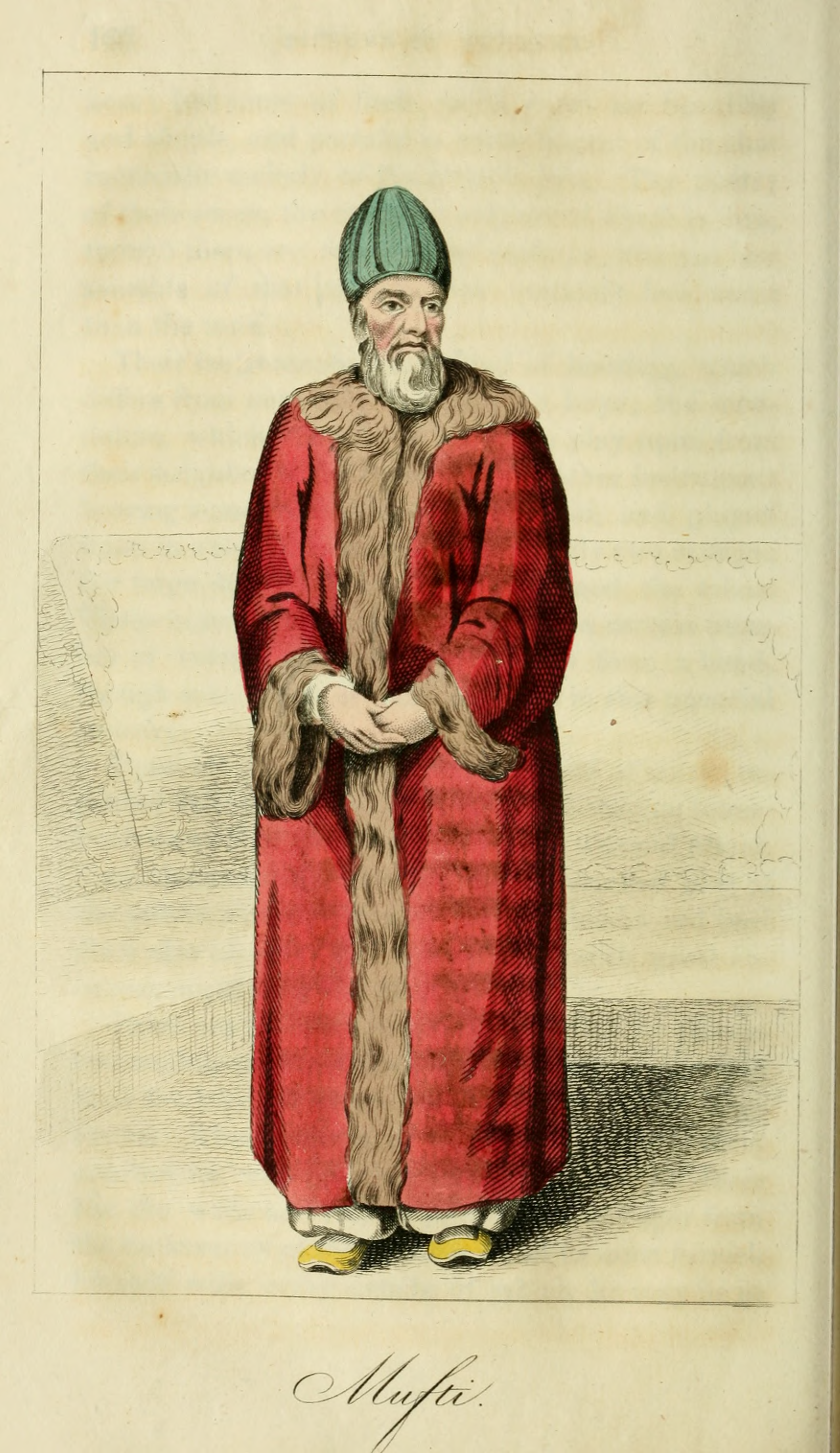 Mufti